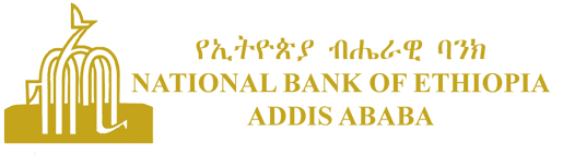 The textlogo of the National Bank of Ethiopia